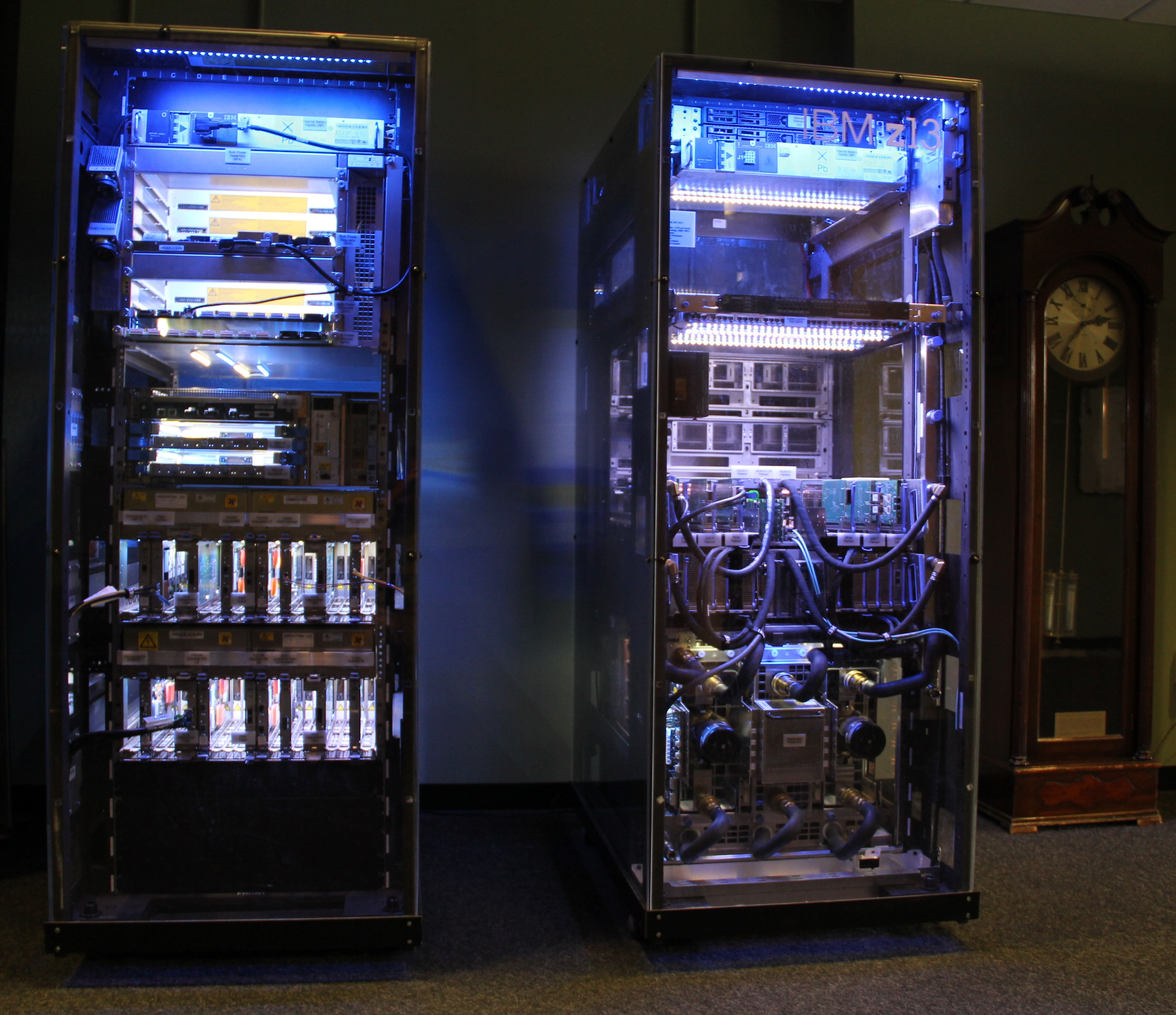 An IBM z13 with the cover removed. The interior is lit to better see the various internal parts